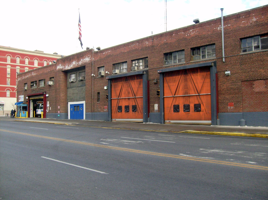 Amsterdam Depo at 129th Street and Amsterdam Avenue, Manhattan